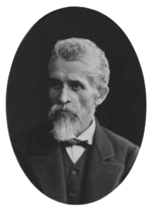 Bronisław Zaleski (1819—1880), Polish and Belarussian political activist, a writer and a publisher.